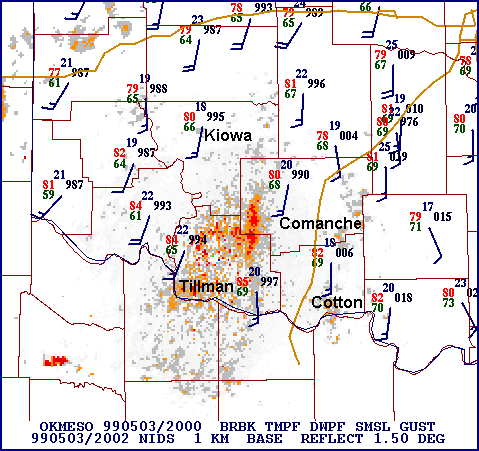 A station model plot of Oklahoma Mesonet data overlaid with WSR-88D weather radar data depicting a possible horizontal convective role (HCR) as a factor in the incipient 3 May 1999 tornado outbreak.